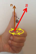 Salu's left-hand rule. Fingers' sense-of-rotation (SOR) is shown. emf's SOR is same or opposite to fingers' according to sign of change of flux.